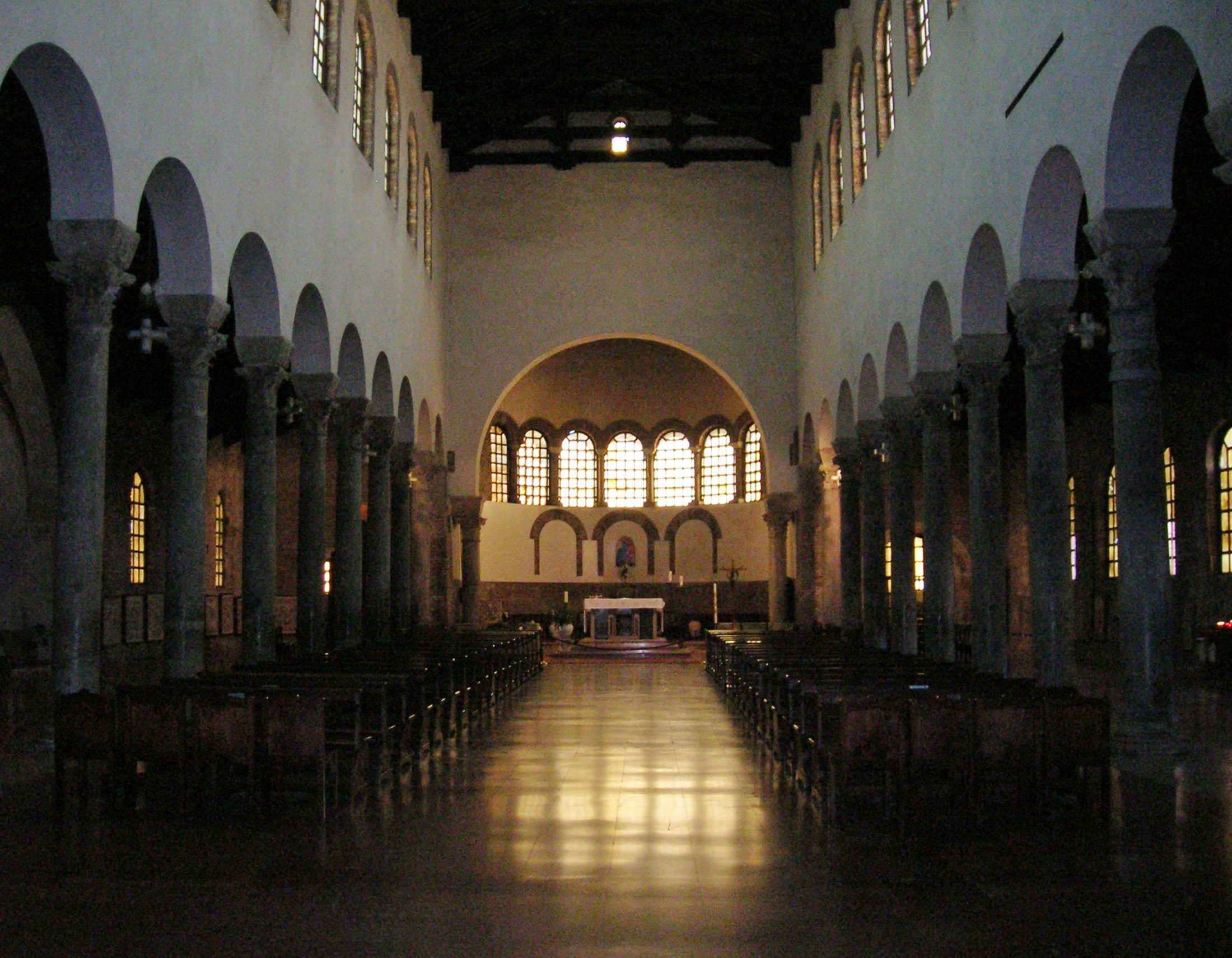 A picture showing the inside of Saint John the Evangelist's church in Ravenna (Italy)